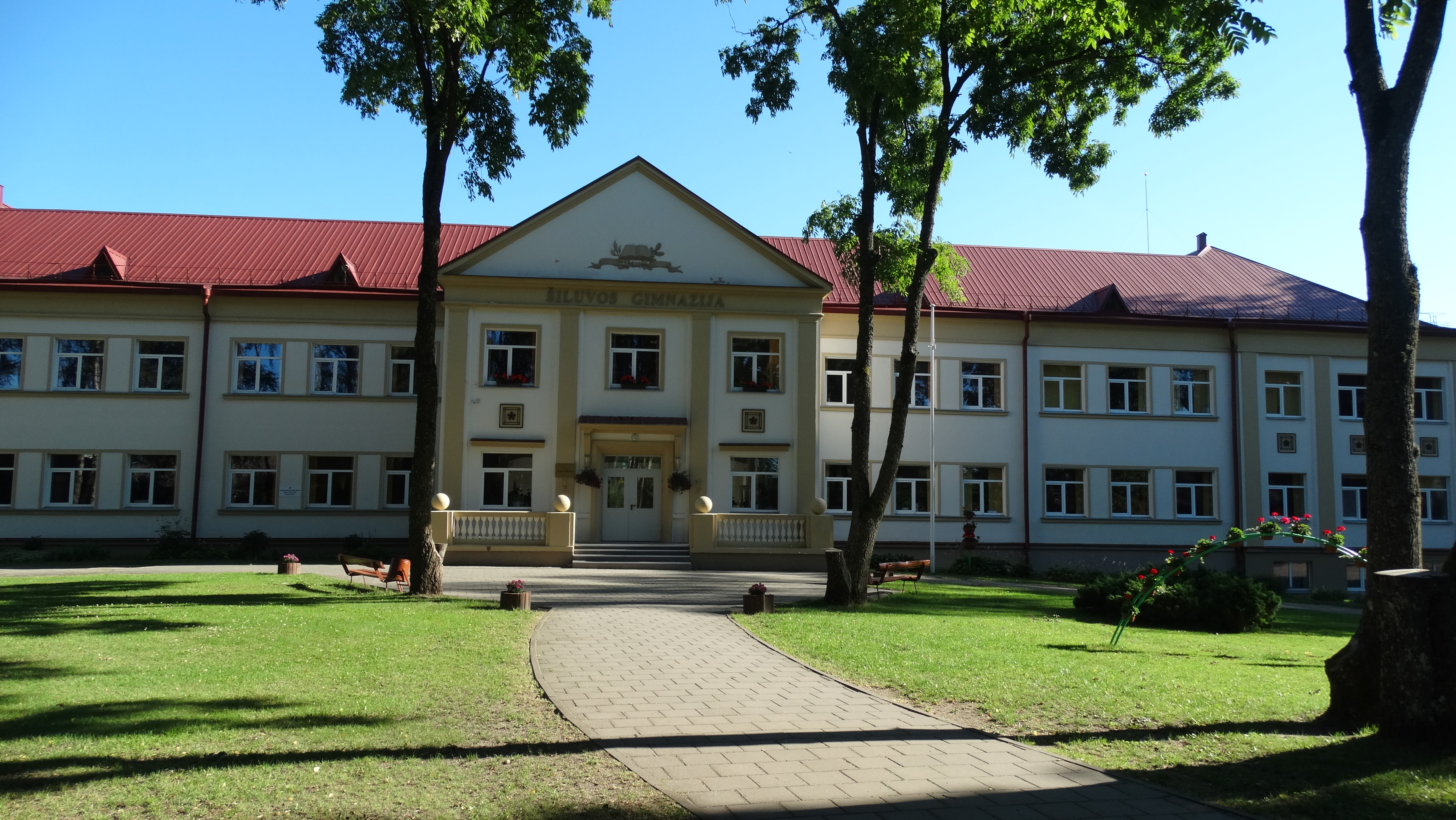 School, Šiluva, Raseiniai district, Lithuania